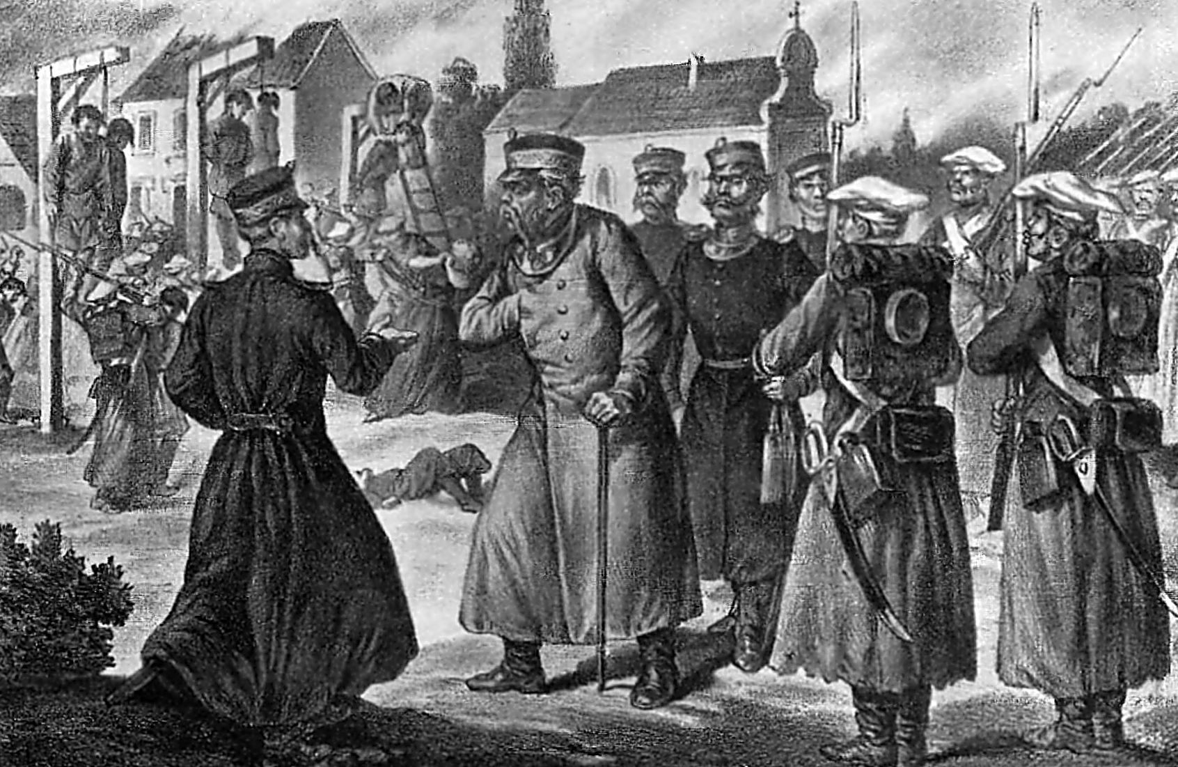 Mikhail Nikolayevich Muravyov Vyeshatel in Lithuania (January Uprising)